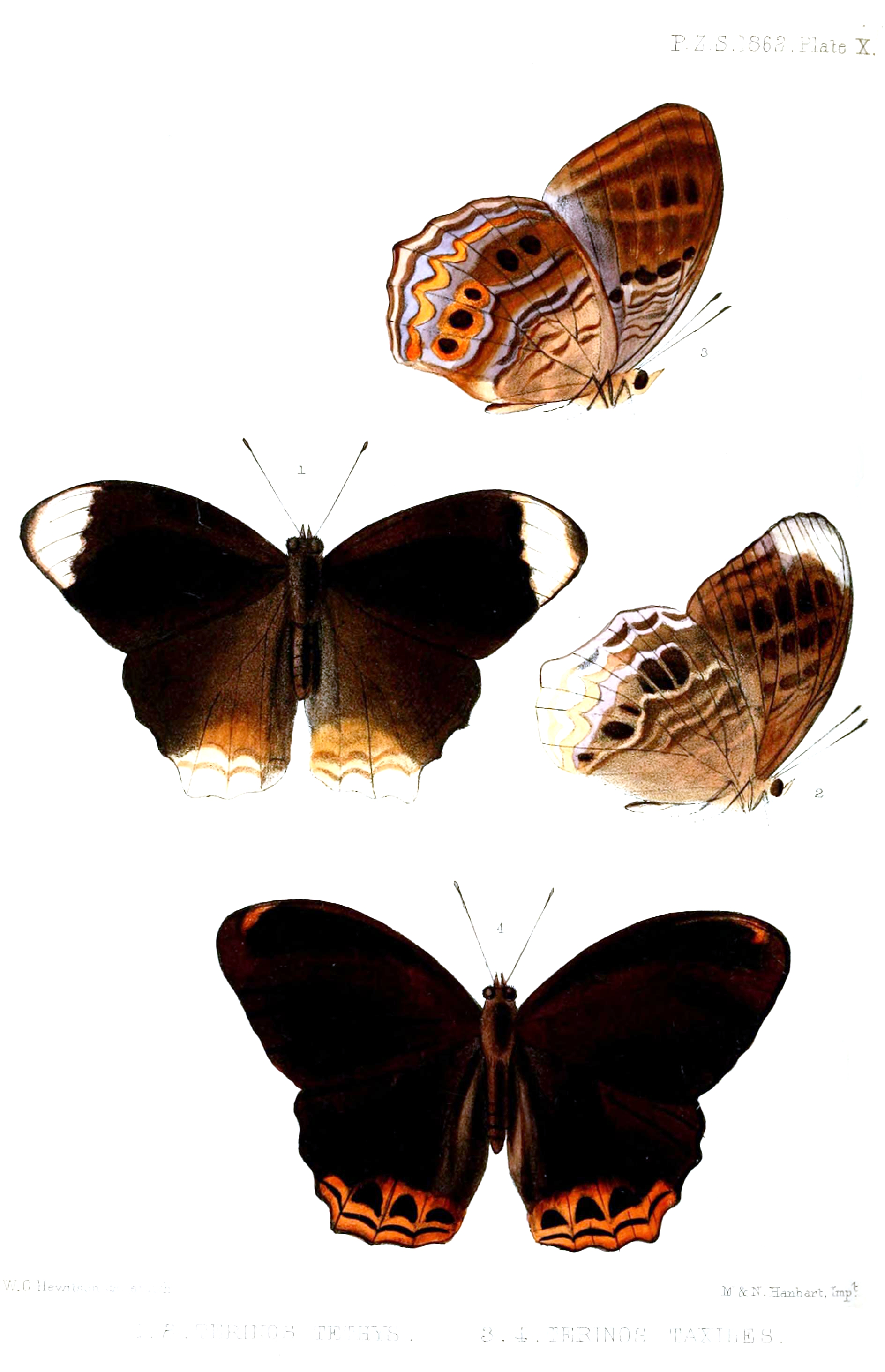 Terinos tethys = Terinos tethys Hewitson, 1862, ♂ Terinos tethys = Terinos tethys Hewitson, 1862, ♂ Terinos taxiles = Terinos taxiles Hewitson, 1862, ♂ Terinos taxiles = Terinos taxiles Hewitson, 1862, ♂